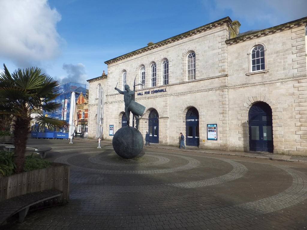 The Drummer Statue and Hall for Cornwall